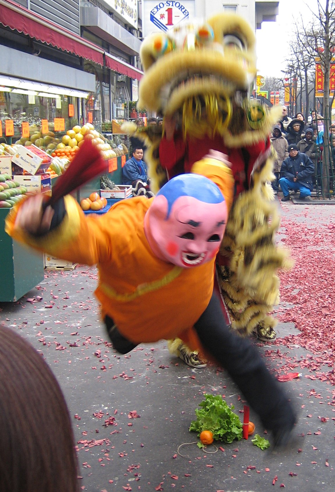 Chinese New Year in the Paris Chinatown, quartier des Olympiades. Photo taken by User:Thbz on Feb. 4th, 2006.